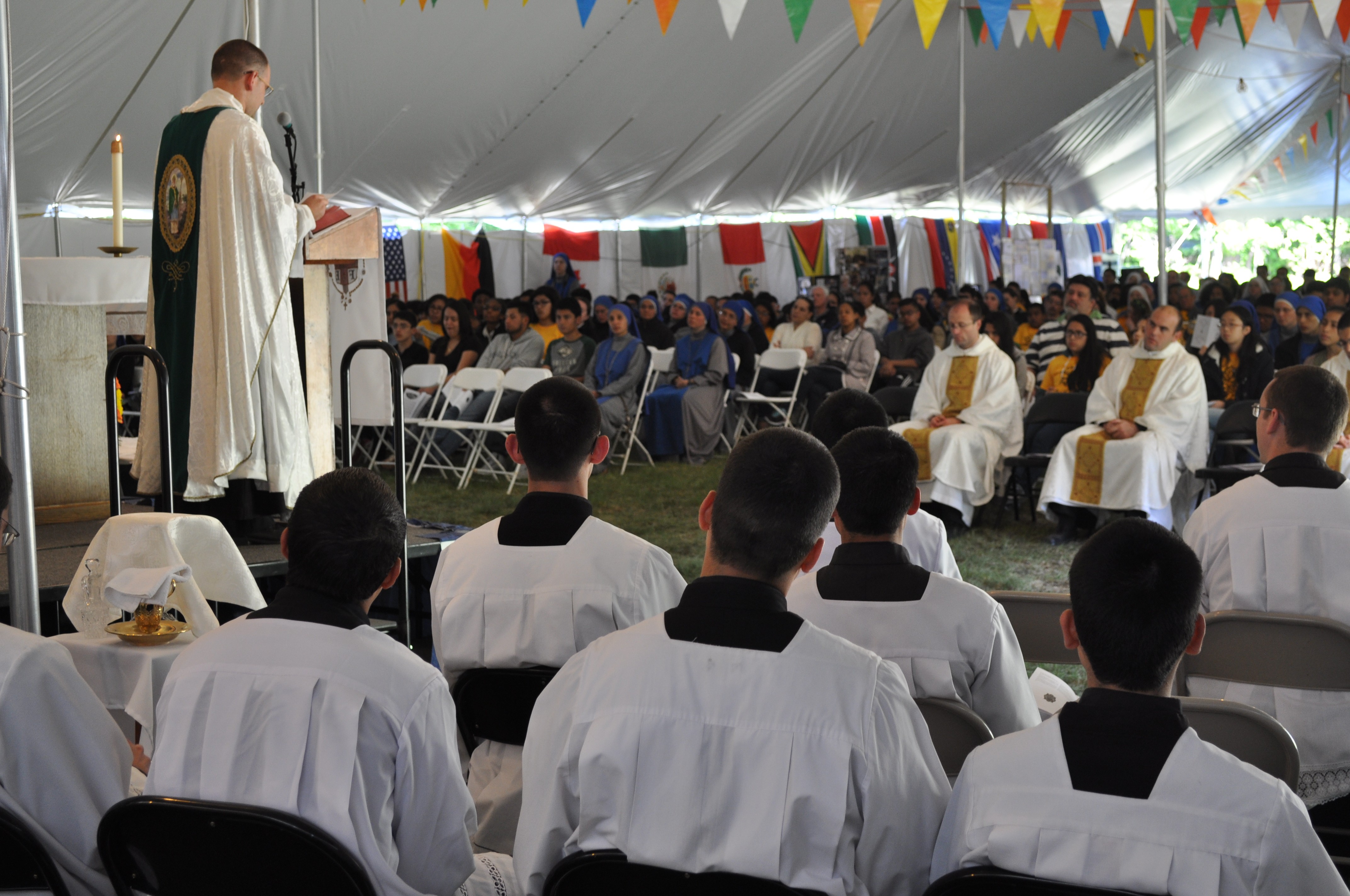 Summer Youth Festival of the Institute of the Incarnate Word